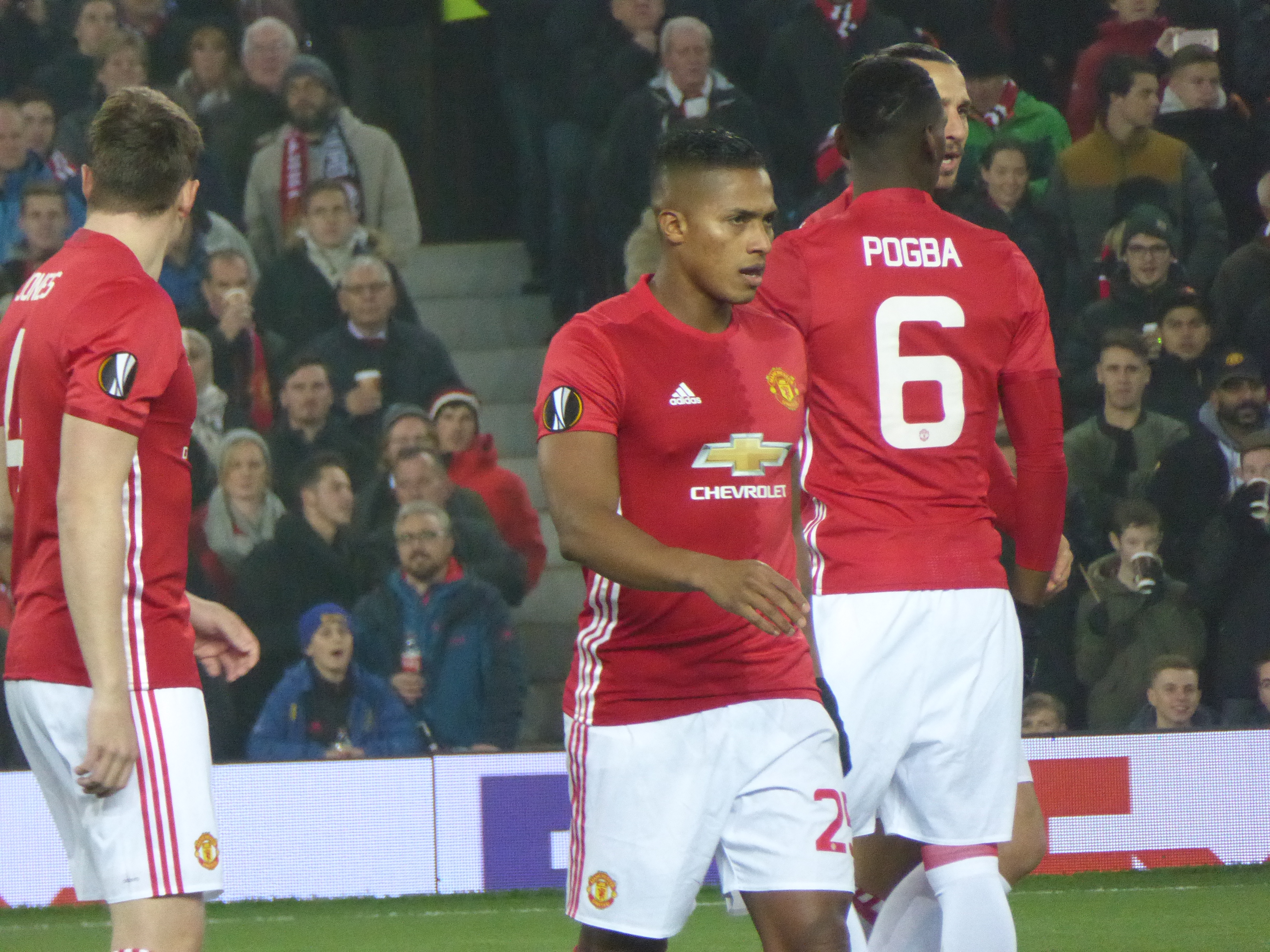 Manchester United v Feyenoord (4-0), Europa League, Old Trafford, Manchester, Greater Manchester, England, 24 November 2016